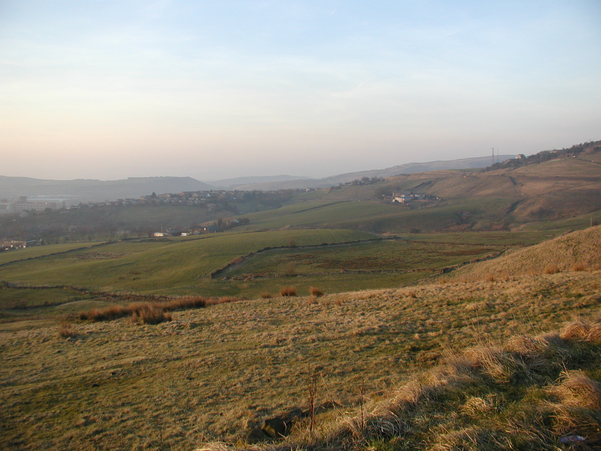 Looking From Sholver,Moorside across Buckstones Towards Shaw,Oldham,Manchester